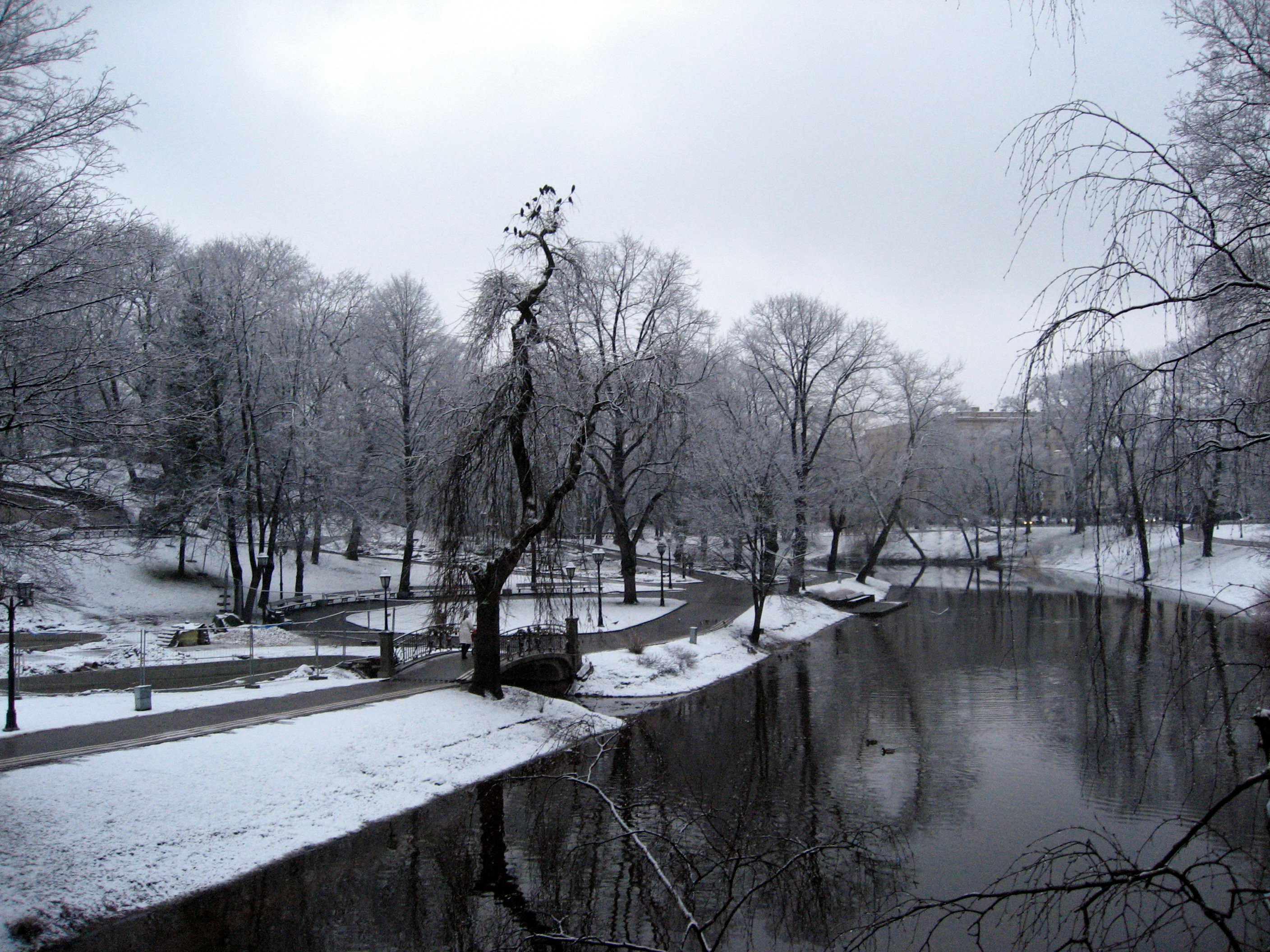 Bastion Hill winter view from Freedom Boulevard